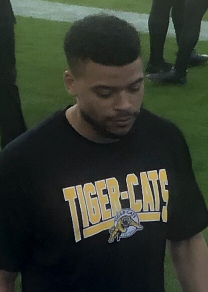 Anthony Coombs, running back for the Hamilton Tiger-Cats.